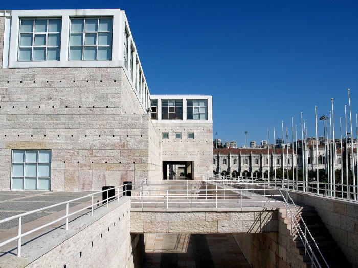 the largest building with cultural facilities in Portugal